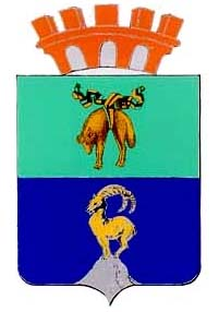 The coat of arms of Oni, Georgia, Georgia during Russian Empire